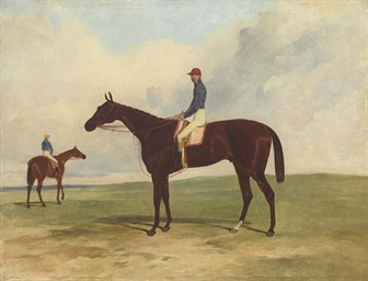 Painting of 1854 Epsom Derby winner Andover and jockey Alfred Day. By Harry Hall (1814-1882)